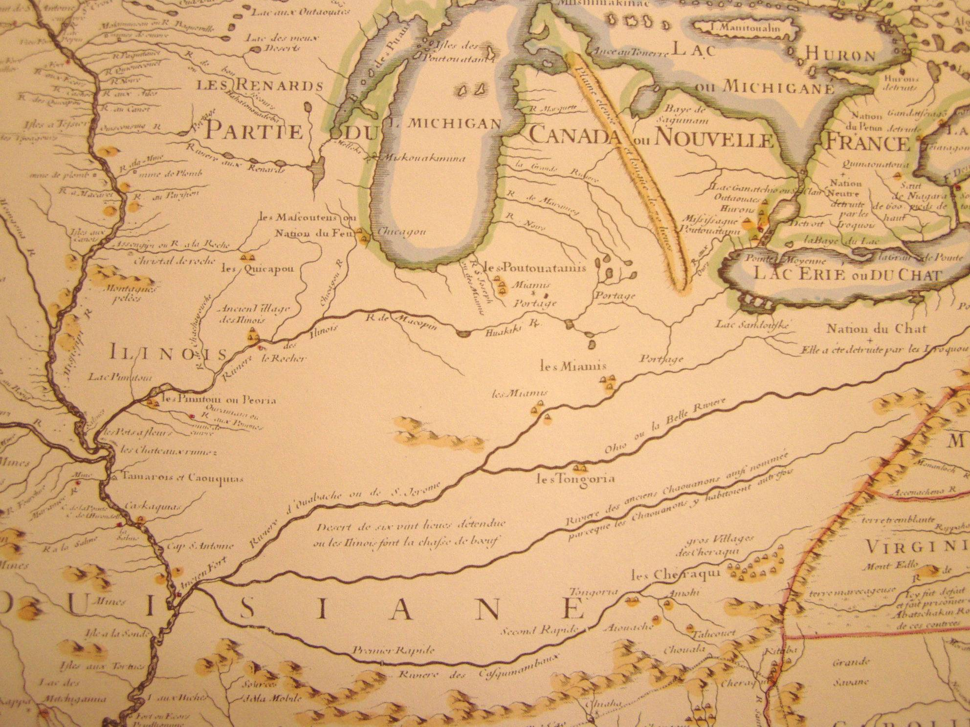 Detail of an 1718 Map of North America